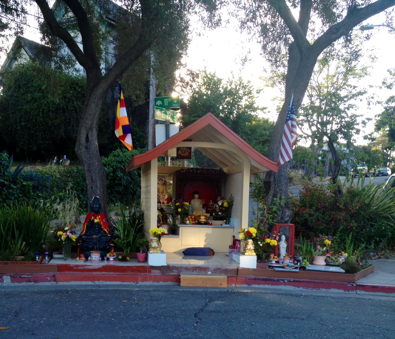 shrine with Buddha and Bodhisattva statues in the Clinton neighborhood on the intersection of East 19th St. and 11th Ave, Oakland